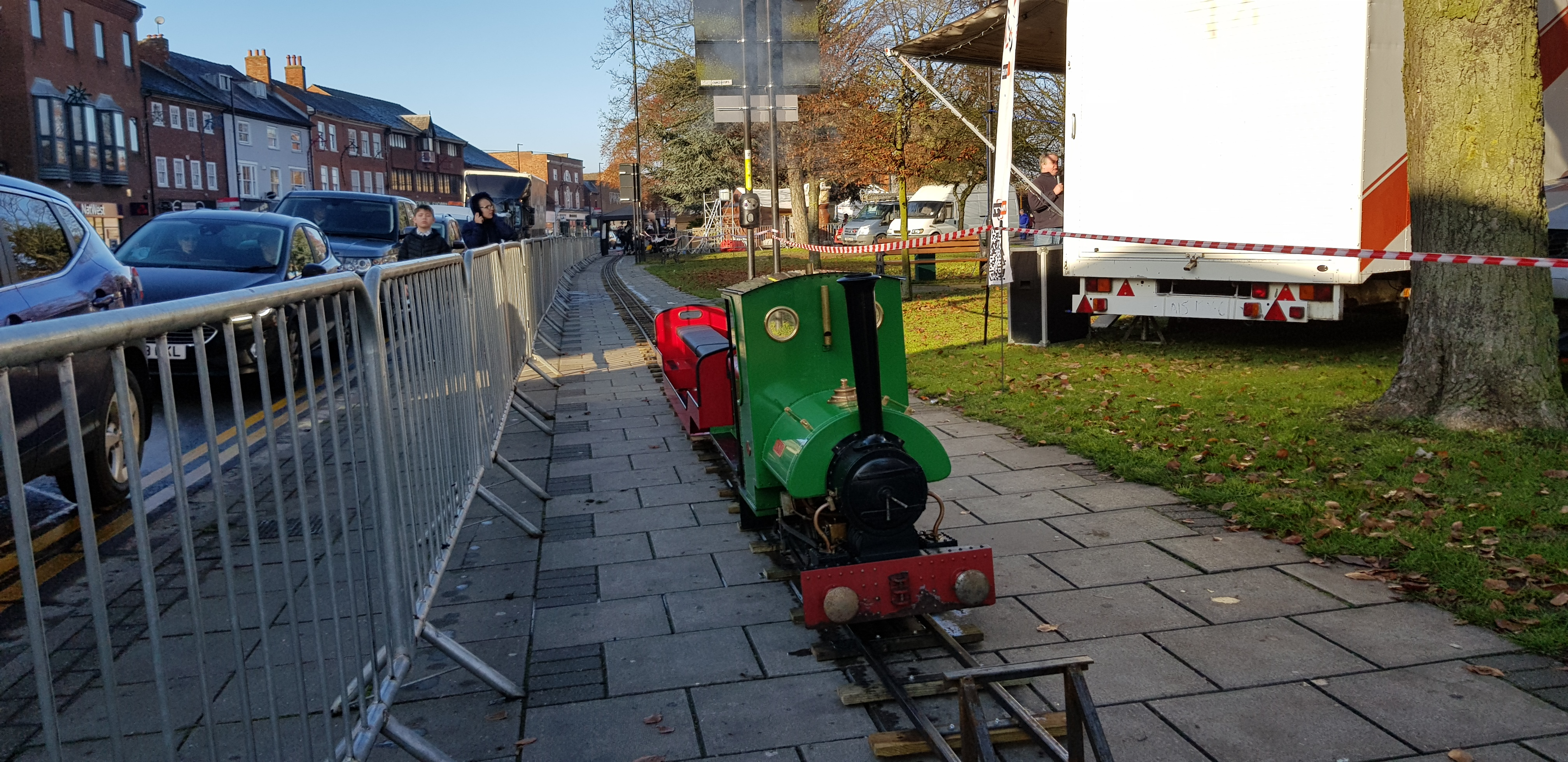 7.25 inch gauge Bagnall stesm locomotive operating on the portable "There and Back Light Railway" along the street in Grantham